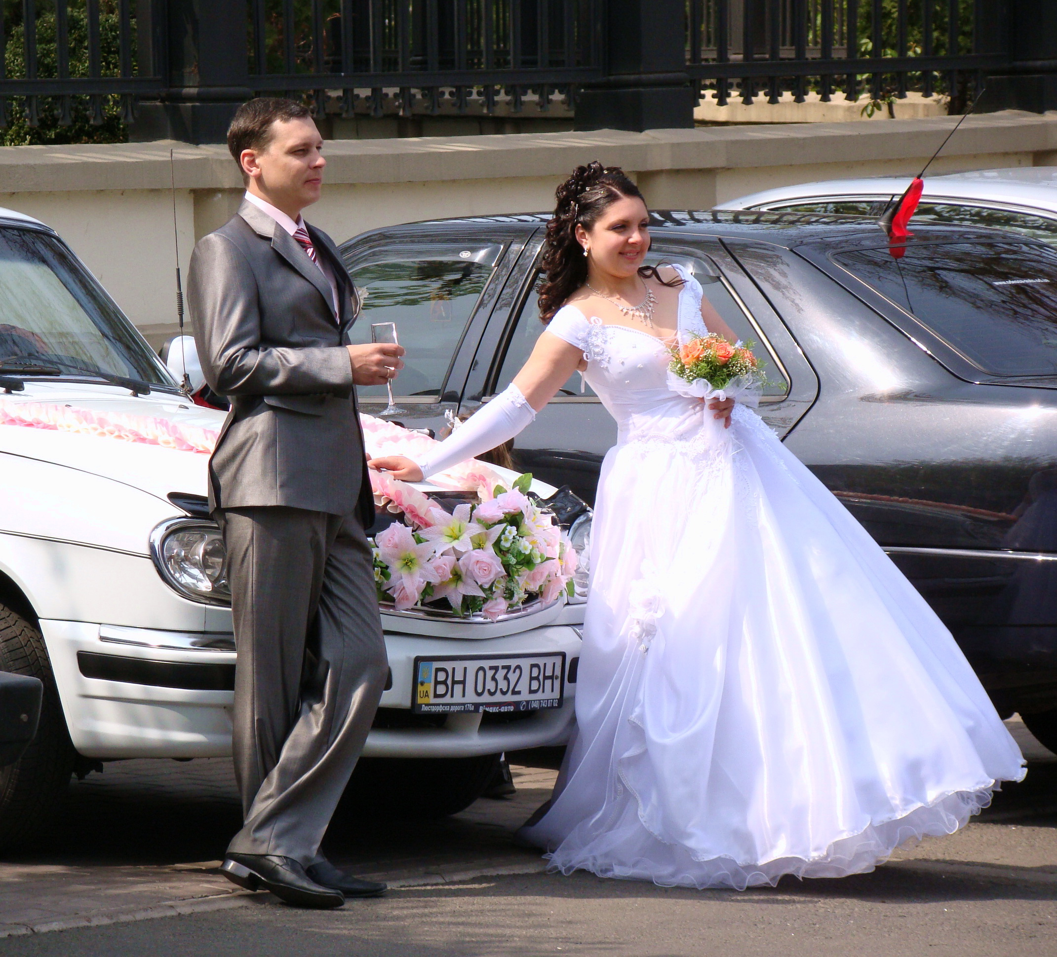 "...Лучшее, конечно, впереди!" / "... The best, of course, ahead!" :)